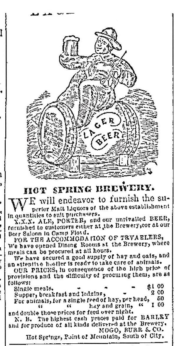 Newspaper advertisement for Hot Springs Hotel and Brewery at Point of the Mountain, Utah. Caption from City of Bluffdale states "Advertisement for Hot Springs Brewery and Hotel, The Valley Tan, 1859-06-01"